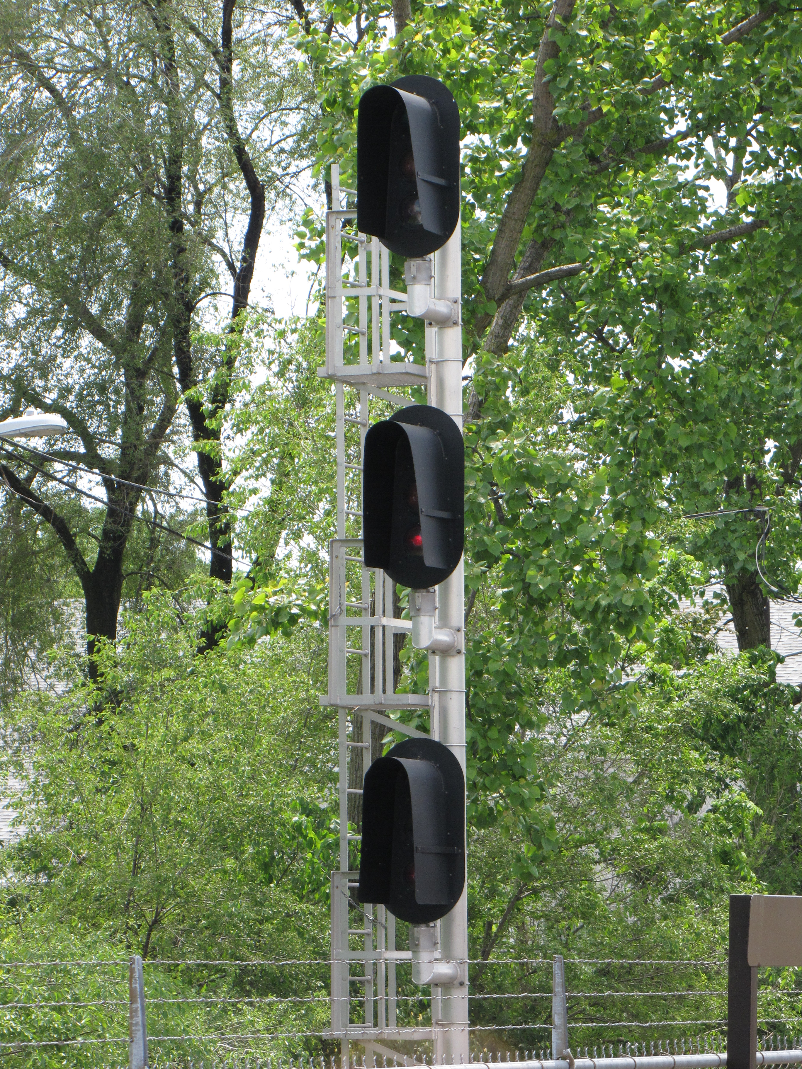 Vertical color light railroad signals referred to as "Darth Vaders" due to their shape along the Northeast Corridor tracks in Washington, DC.